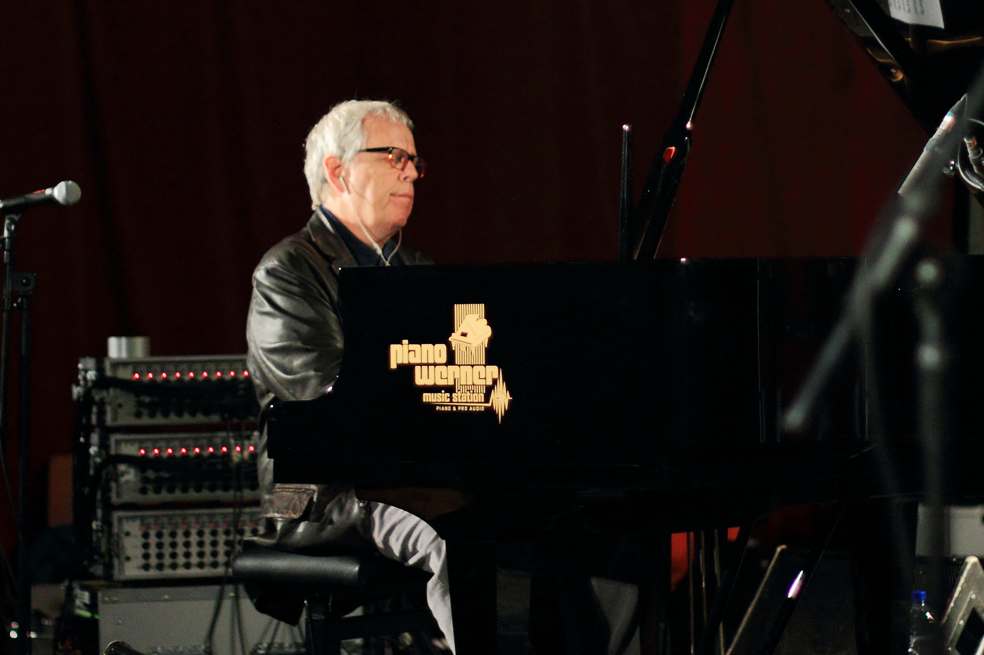 Kenny Werner at INNtöne Jazzfestival, Austria 2016.